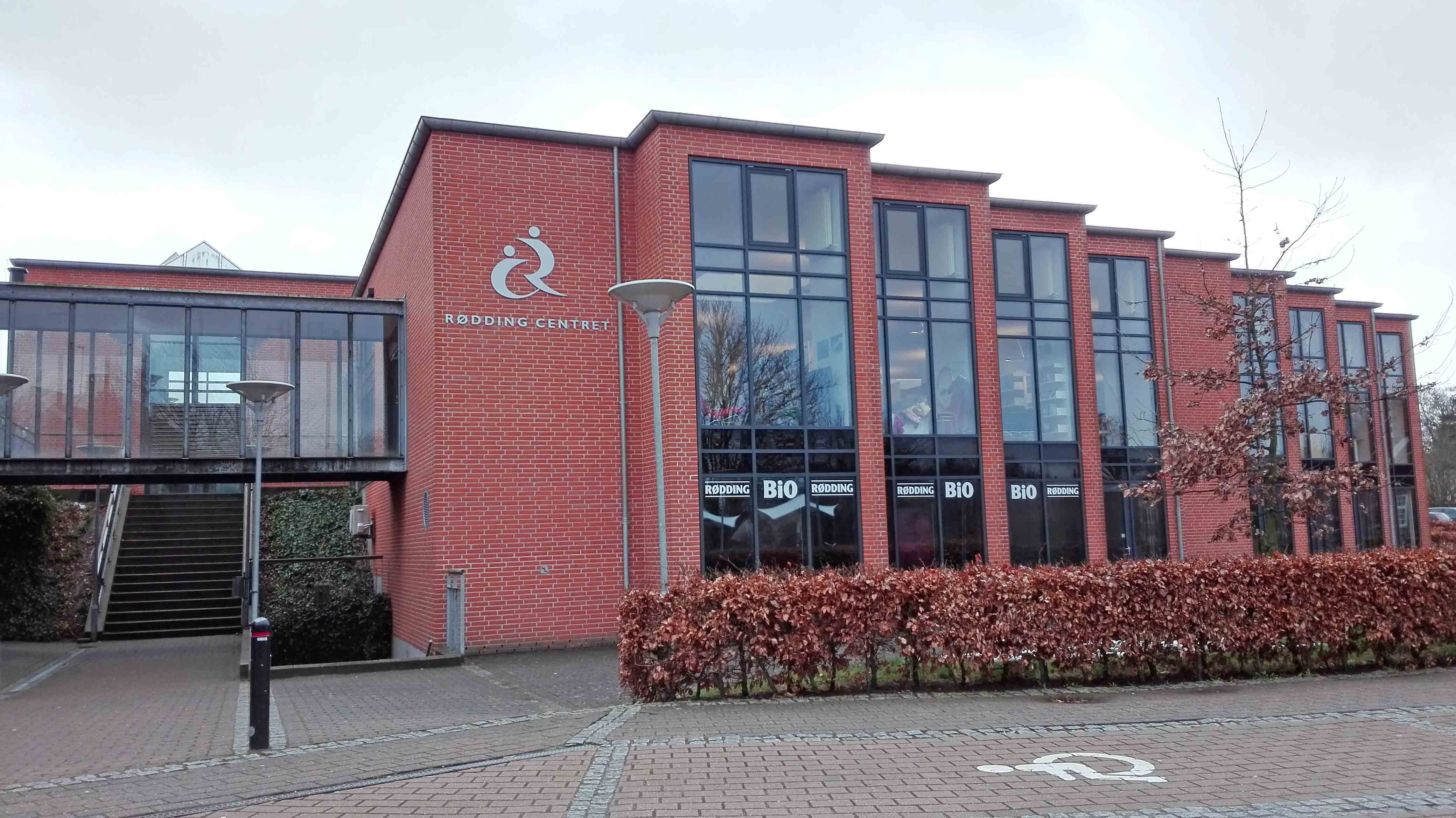 Biografen i Rødding Centret